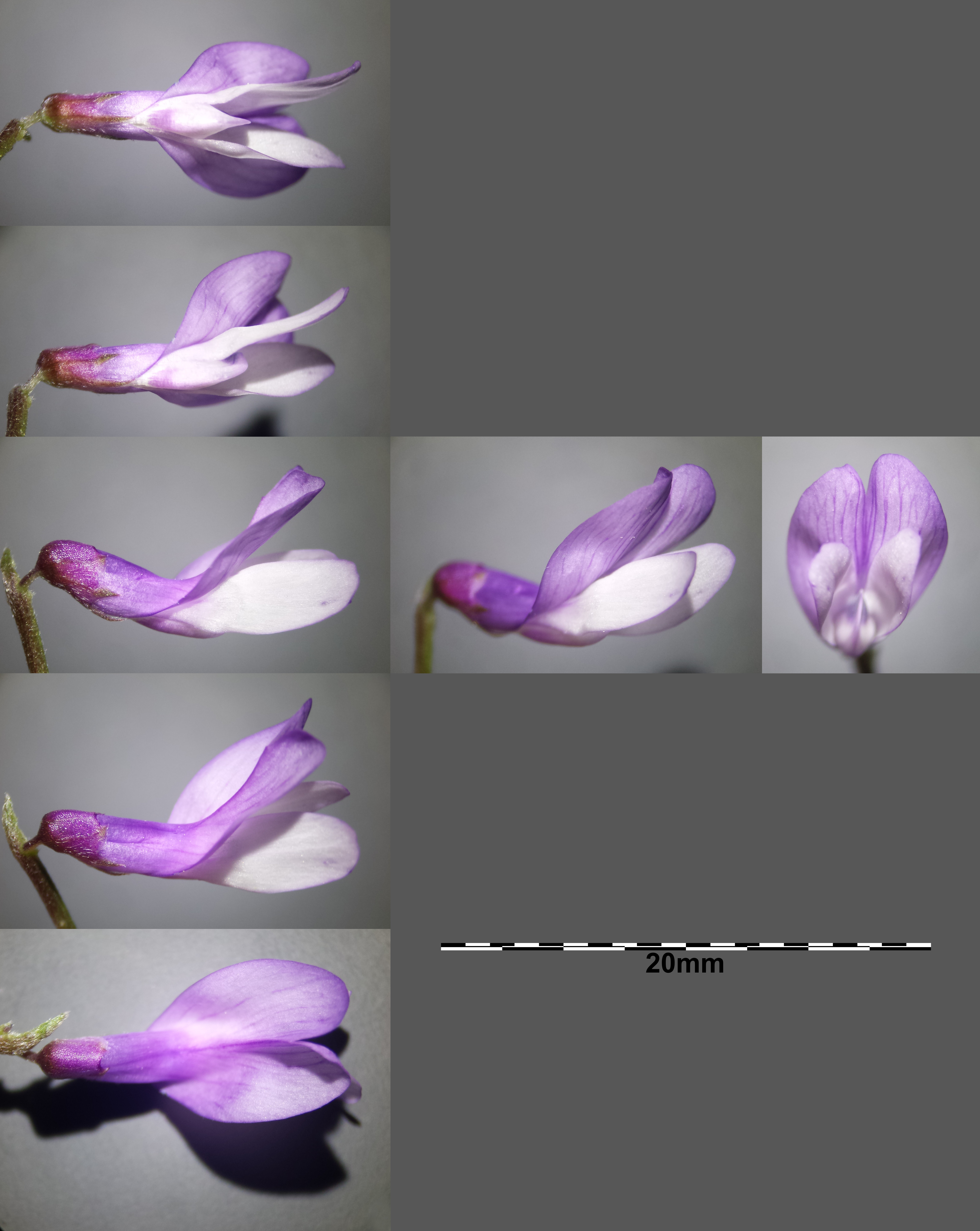 Flower Taxonym: Vicia tenuifolia ss Fischer et al. EfÖLS 2008 ISBN 978-3-85474-187-9 Location: near Niederhollabrunn, district Korneuburg, Lower Austria - ca. 350 m a.s.l. Habitat: semi-dry grassland